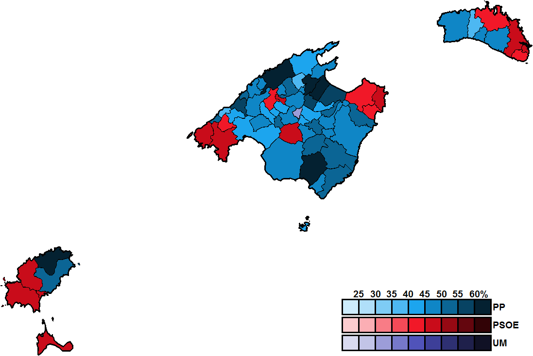 Balearic Islands Spanish Congress District 2004 General Elections Municipal Vote Share